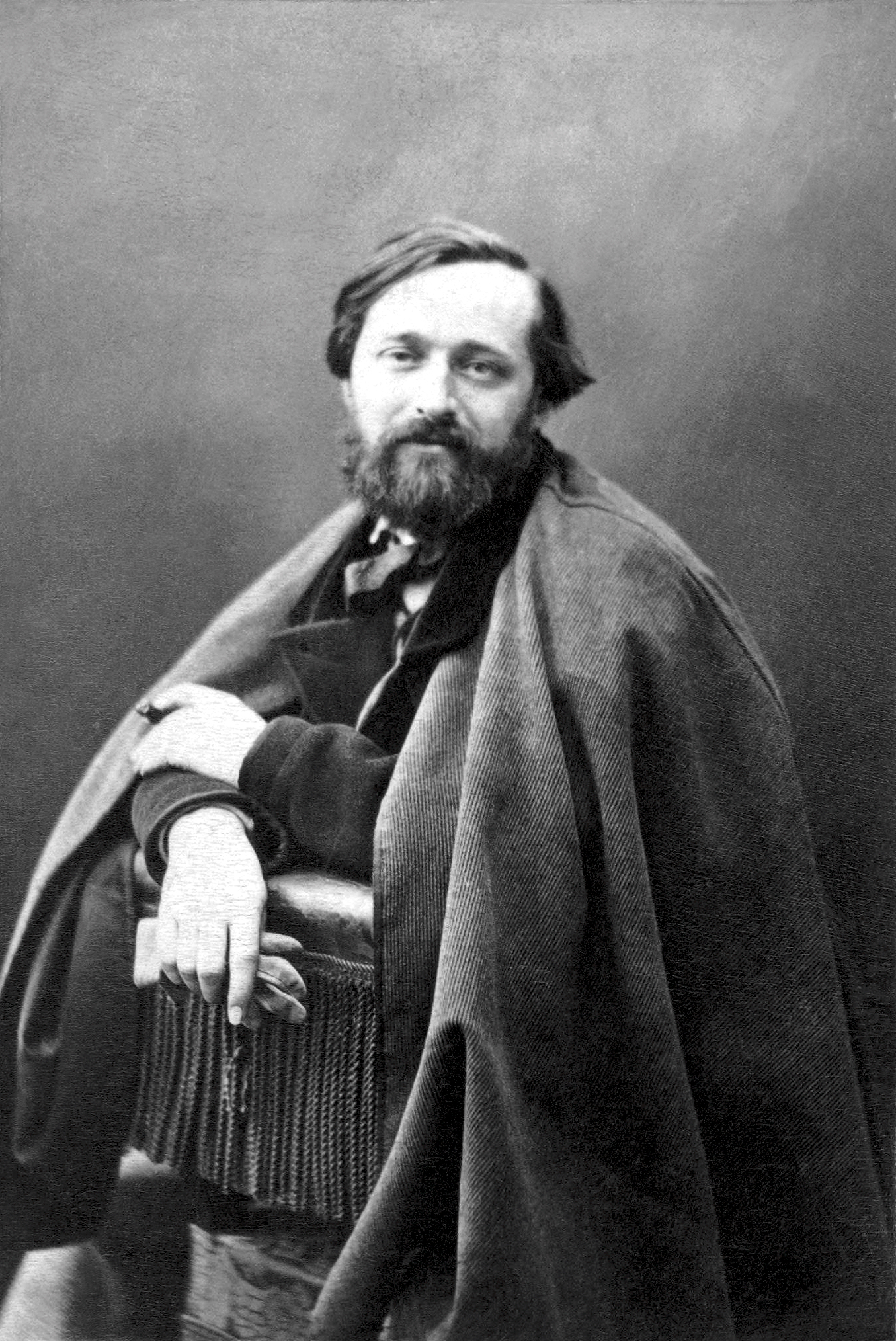 Photograph of Pierre Alexis Ponson du Terrail (1829–1871) French writer.